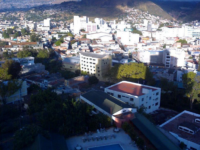 Partial view of Downtown Tegucigalpa from the Honduras Maya Hotel.